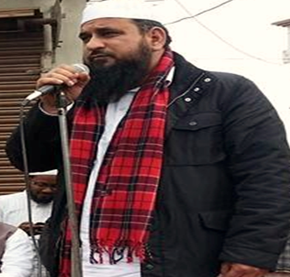 Kaiser Ali khan during Lok Sabha Election 2014